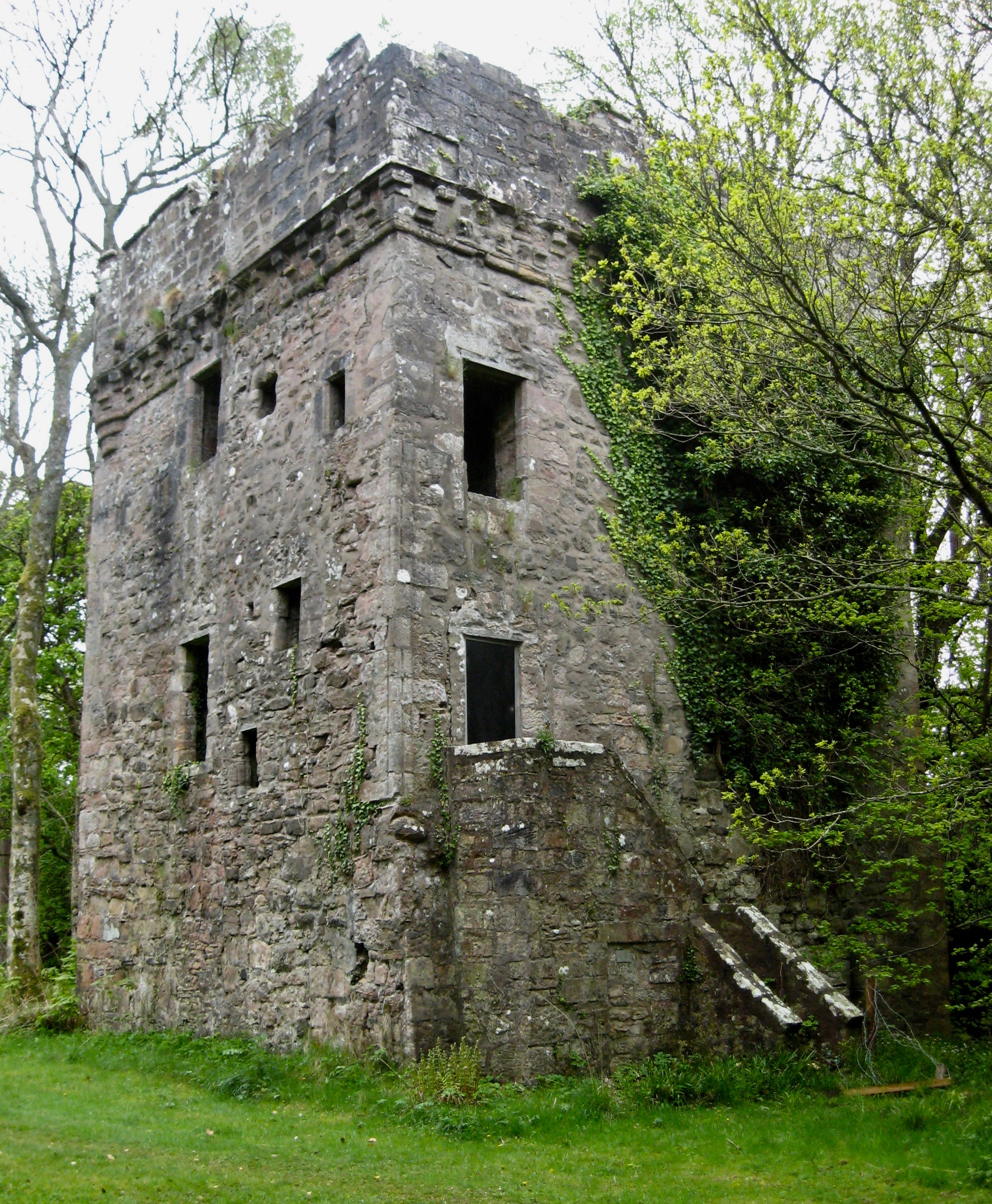 Ardgowan Castle, a 15th century tower house in the grounds of Ardgowan House near Inverkip in Scotland, looking over the Firth of Clyde. It was built on the site of the earlier fortress of Inverkip Castle dating from before the 13th century.